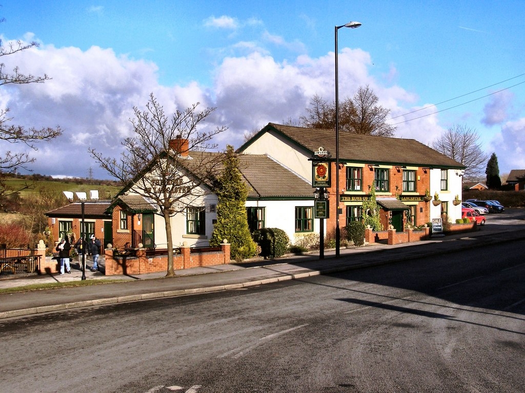 The Rose of Lancaster Public house and restaurant; Haigh Lane, Chadderton